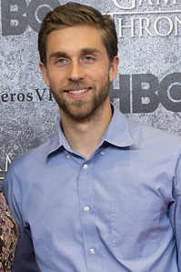 Seattle Sounders defender Andrew Duran. Photos by